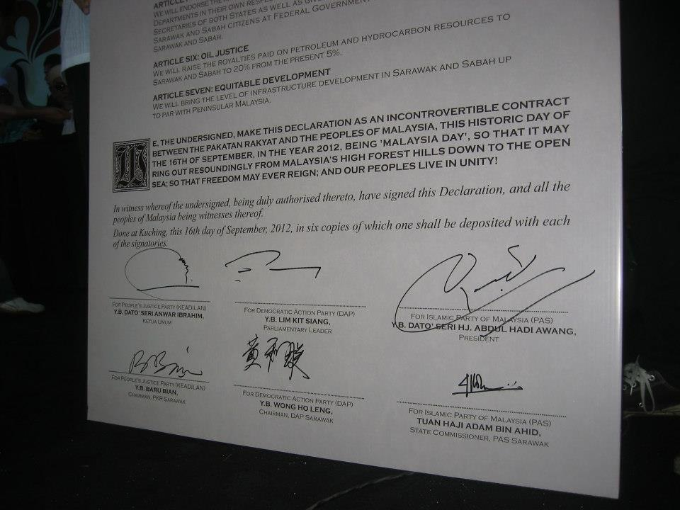 Signed of the Kuching Declaration